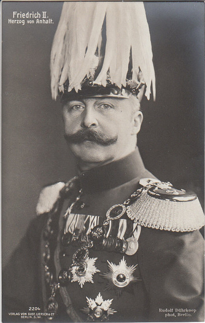 Frederick II, Duke of Anhalt